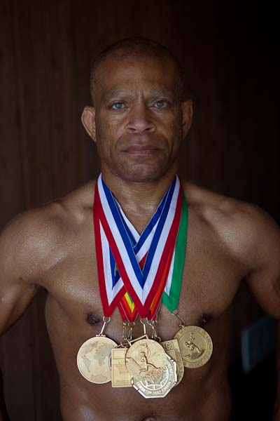 American Olympic Wrestler Lee Kemp with his 7 Gold Medals earned during his career